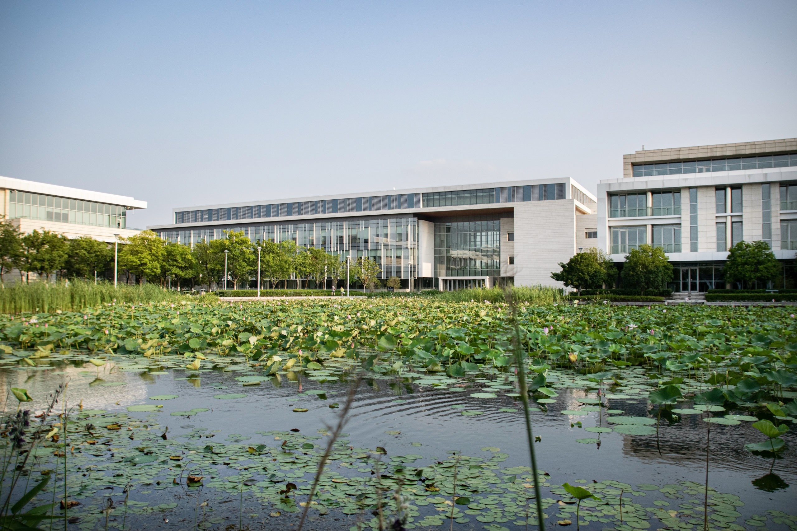 Innovation Building at Duke Kunshan University